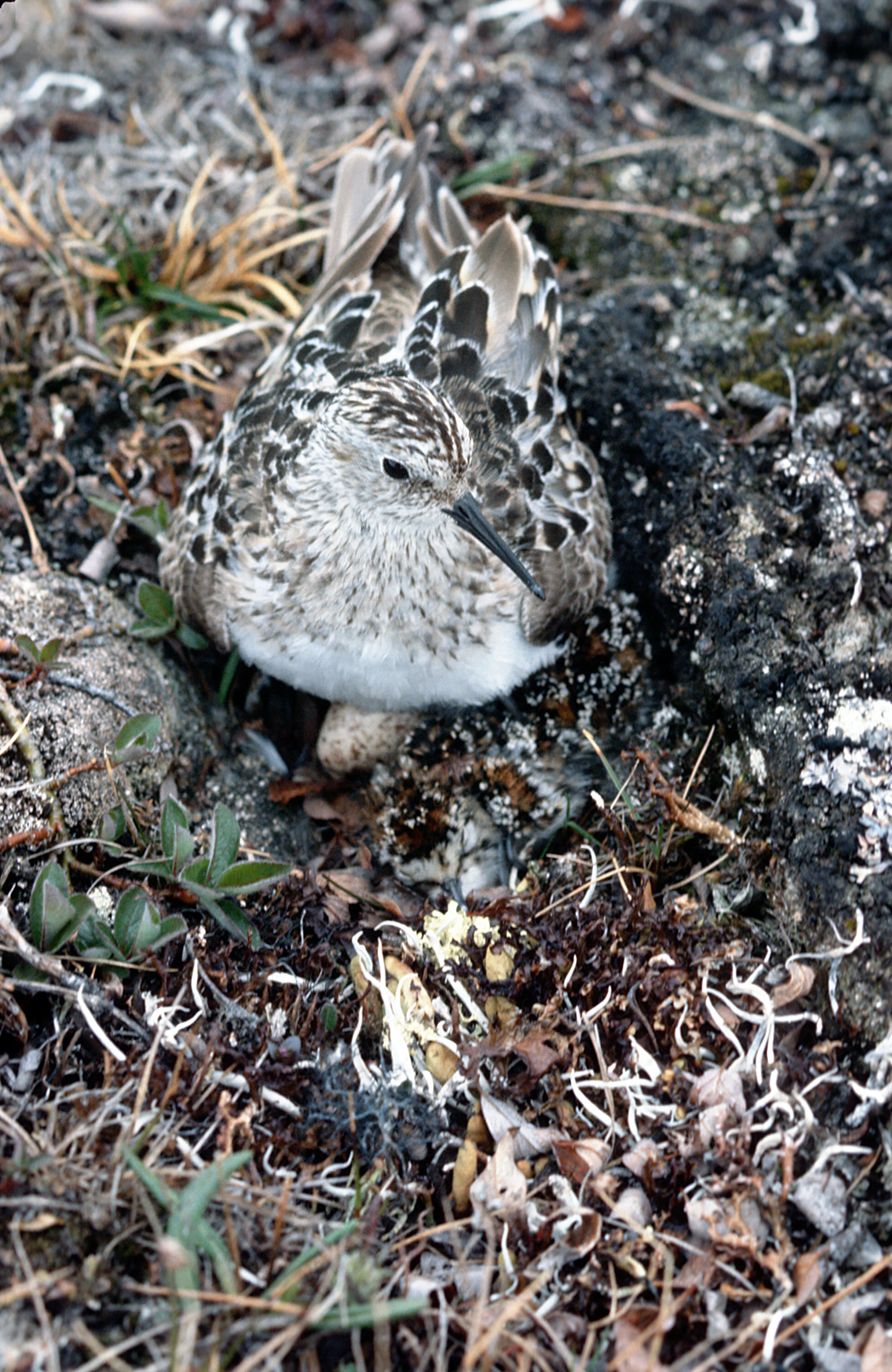 Baird's Sandpiper Calidris bairdii on nest